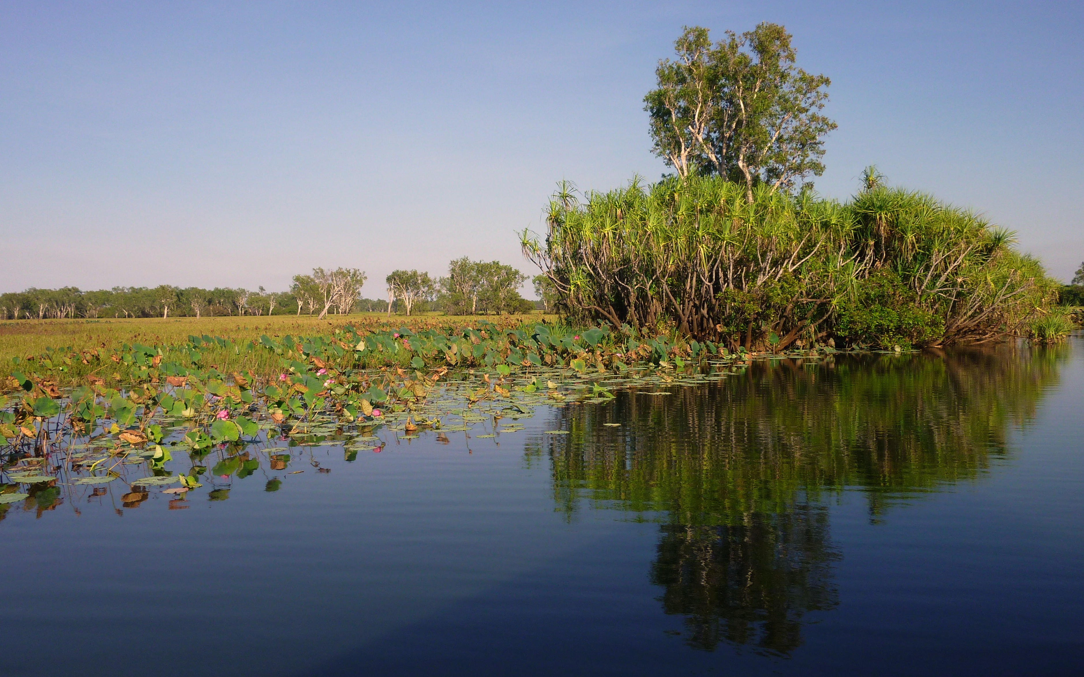 Lotus on Yellow Water, Kakadu National Park